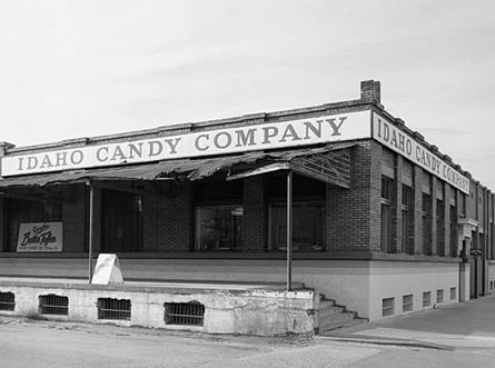 Myrtle Street side of the Idaho Candy Company Warehouse, located at the intersection of Eighth and Myrtle Streets in Boise, Idaho, United States. The warehouse is part of the South Eighth Street Historic District, which is listed on the National Register of Historic Places.